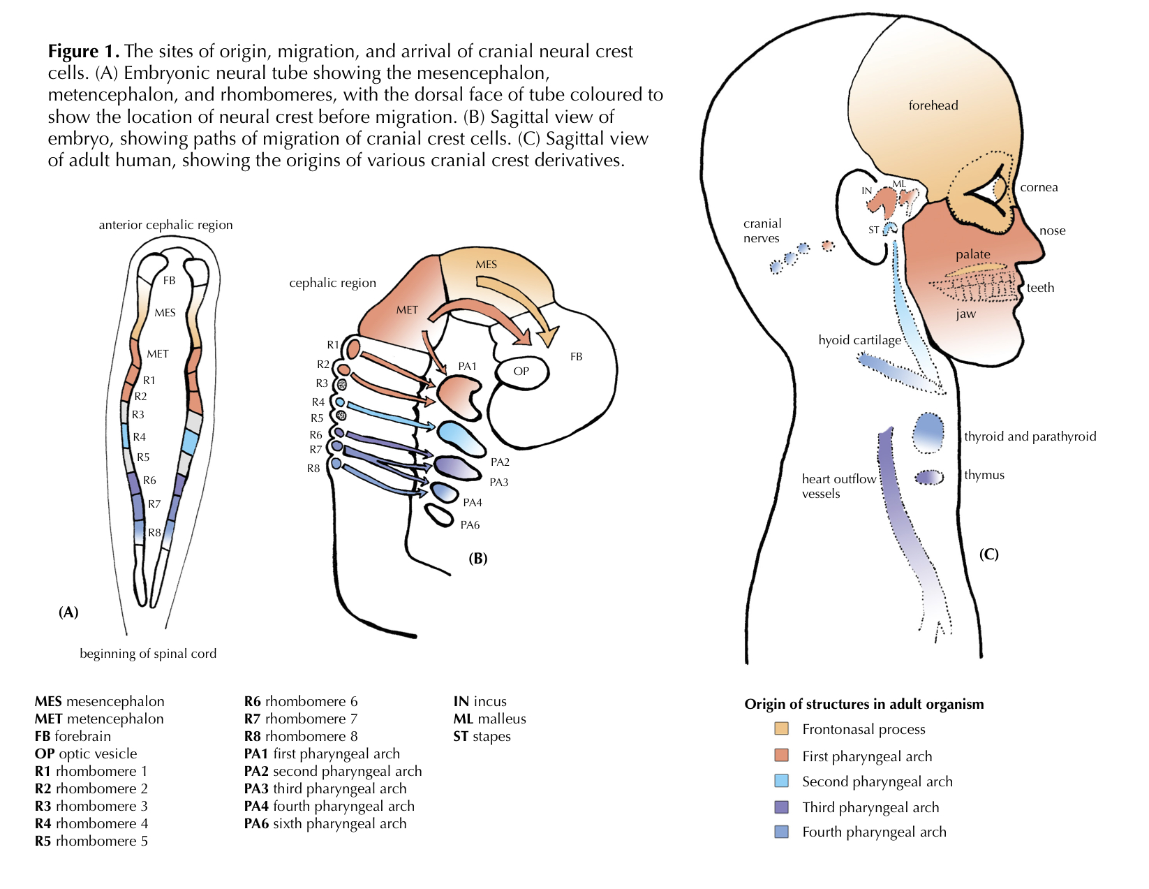 The sites of origin, migration, and arrival of cranial neural crest cells. (A) Embryonic neural tube showing the mesencephalon, metencephalon, and rhombomeres, with the dorsal face of tube coloured to show the location of neural crest before migration. (B) Sagittal view of embryo, showing paths of migration of cranial crest cells. (C) Sagittal view of adult human, showing the origins of various cranial crest derivatives.